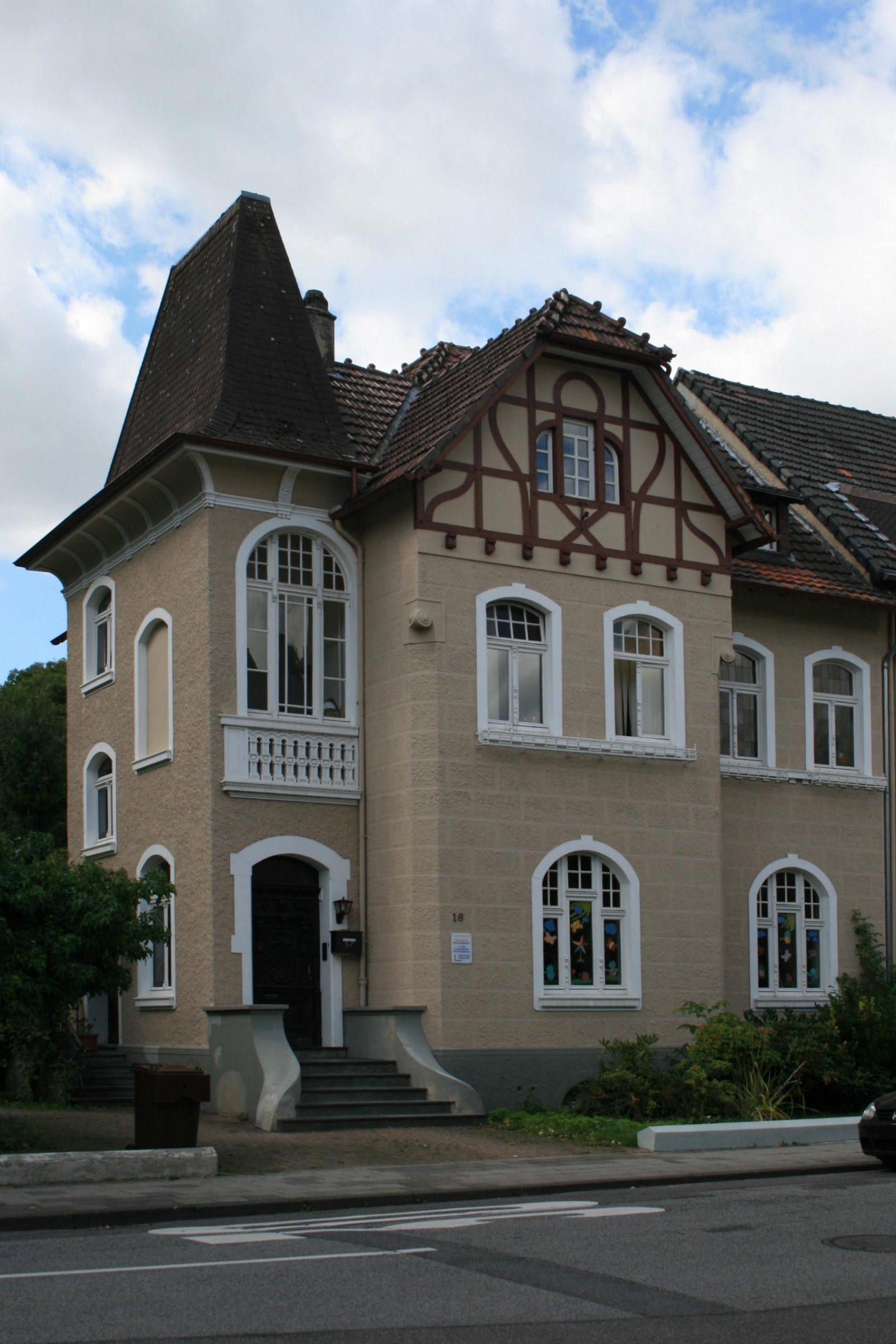 Cultural heritage monument No. J 002 in Mönchengladbach